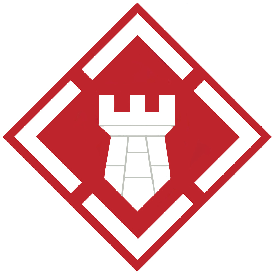 shoulder sleeve insignia of the 20th Engineer Brigade.